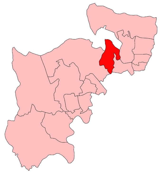 A map of Finchley constituency within Middlesex, as it existed from 1918 to 1945.